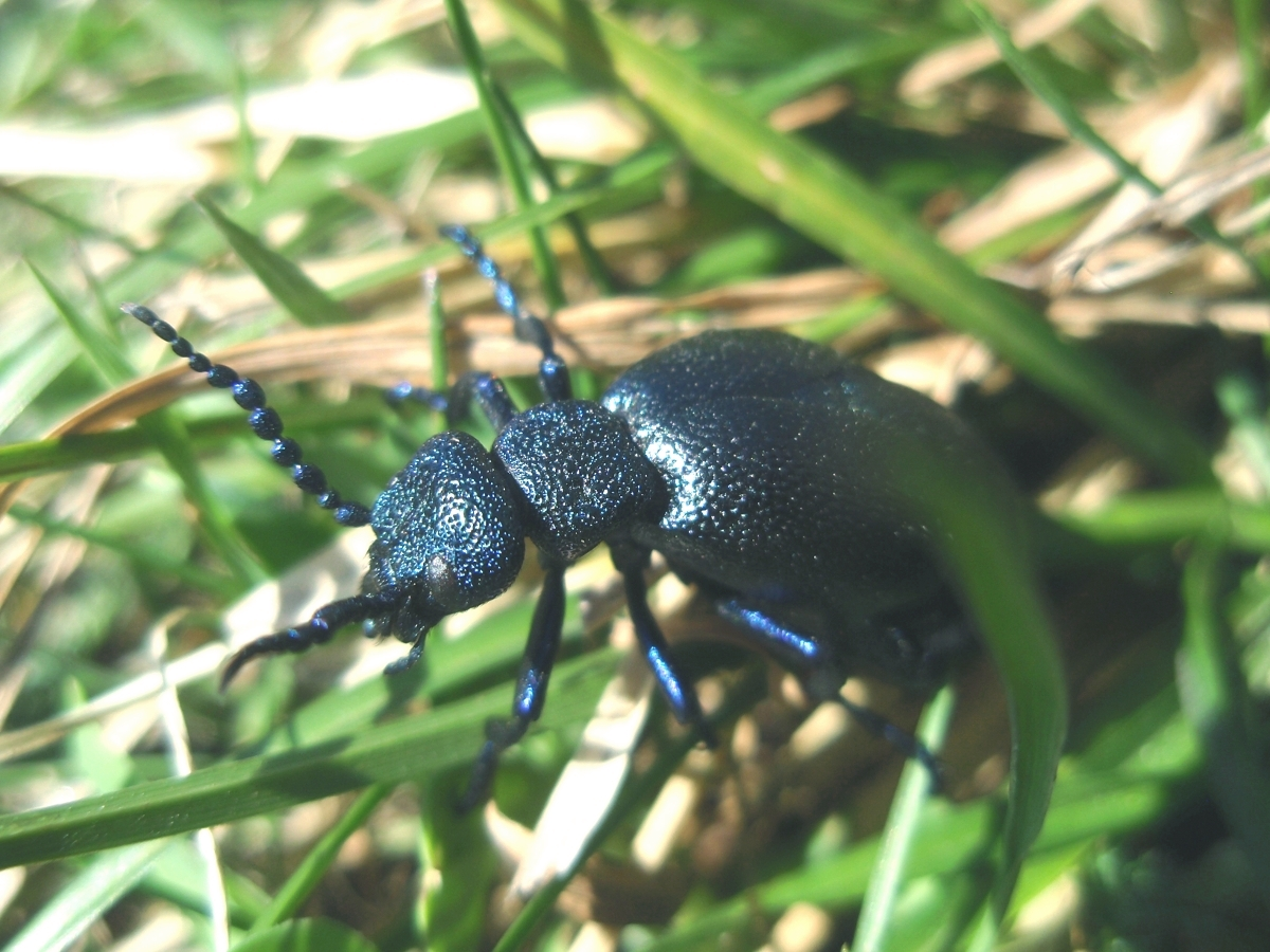 Meloe proscarabaeus, taken in March 2012, male species, postprocessing using gimp